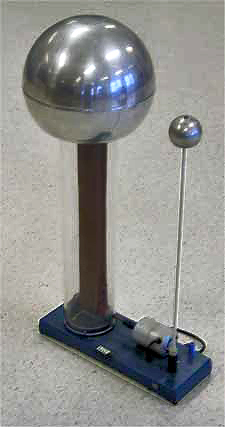 Photograph of a Van de Graaff generator.